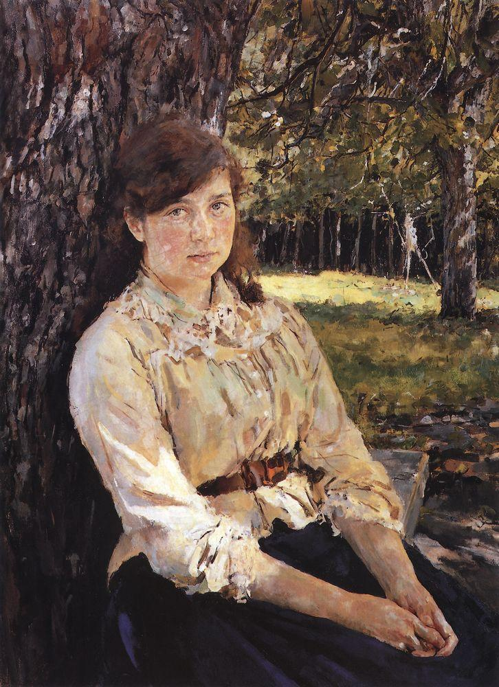 Girl in the Sunlight Portrait of Maria Simonovich